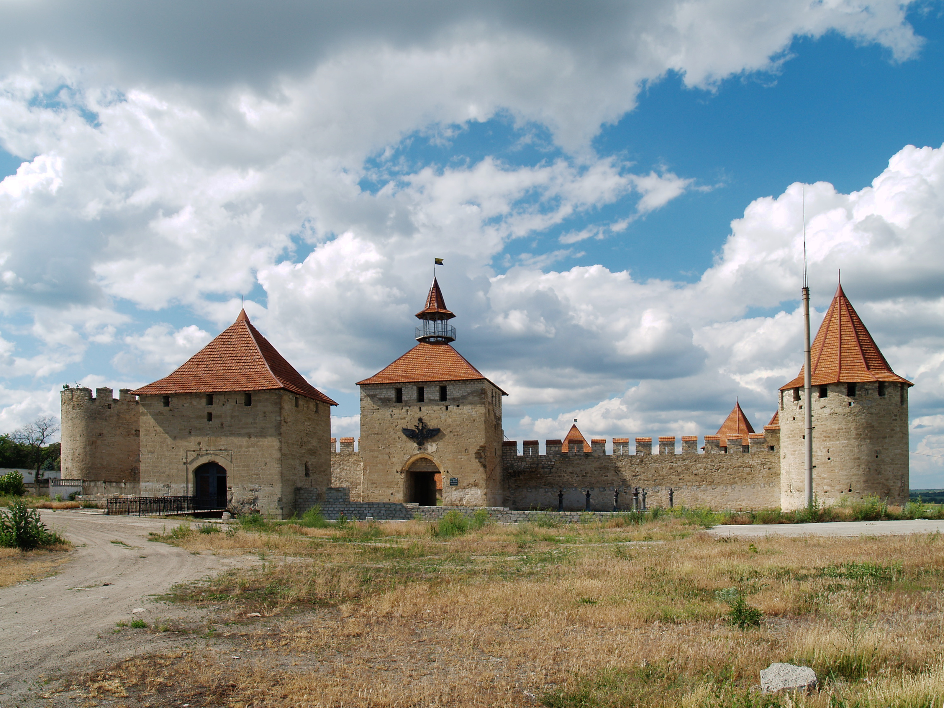 South side of the Bender Fortress